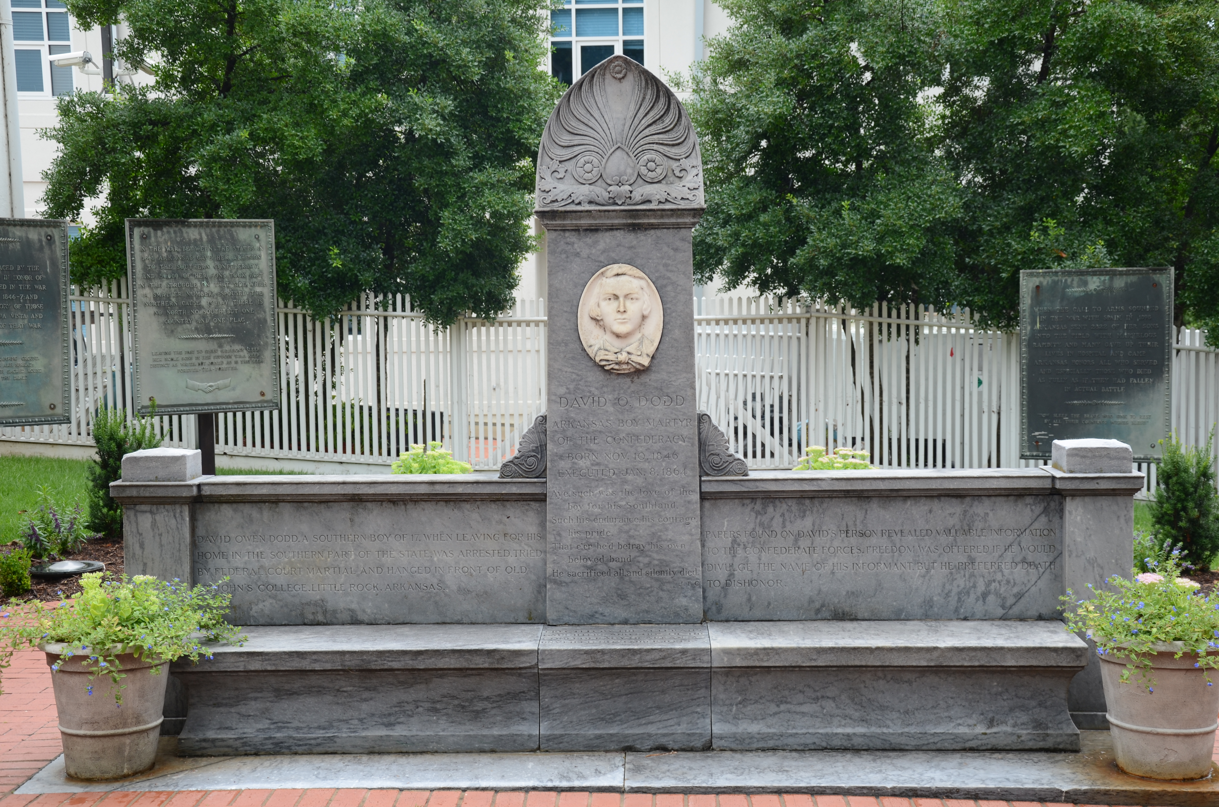 David O. Dodd Memorial Sculptor: Unknown Date Executed: c.1923 Comments: Located at Old State House. The Arkansas Historic Preservation Program